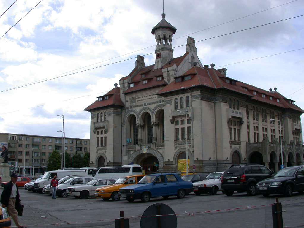 Museum in Constanta, East Romania